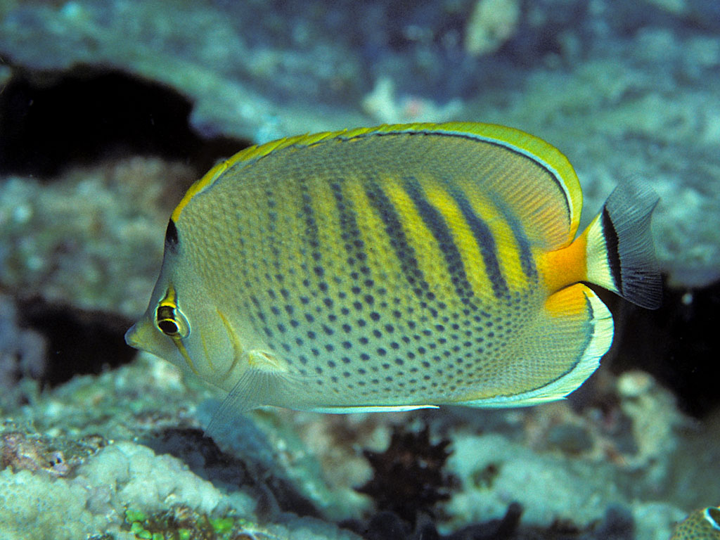 Chaetodon punctatofasciatus, Spotband butterflyfish, underwater photograph, Mid Reef, Pulau Sipadan, Sabah, Malaysia.